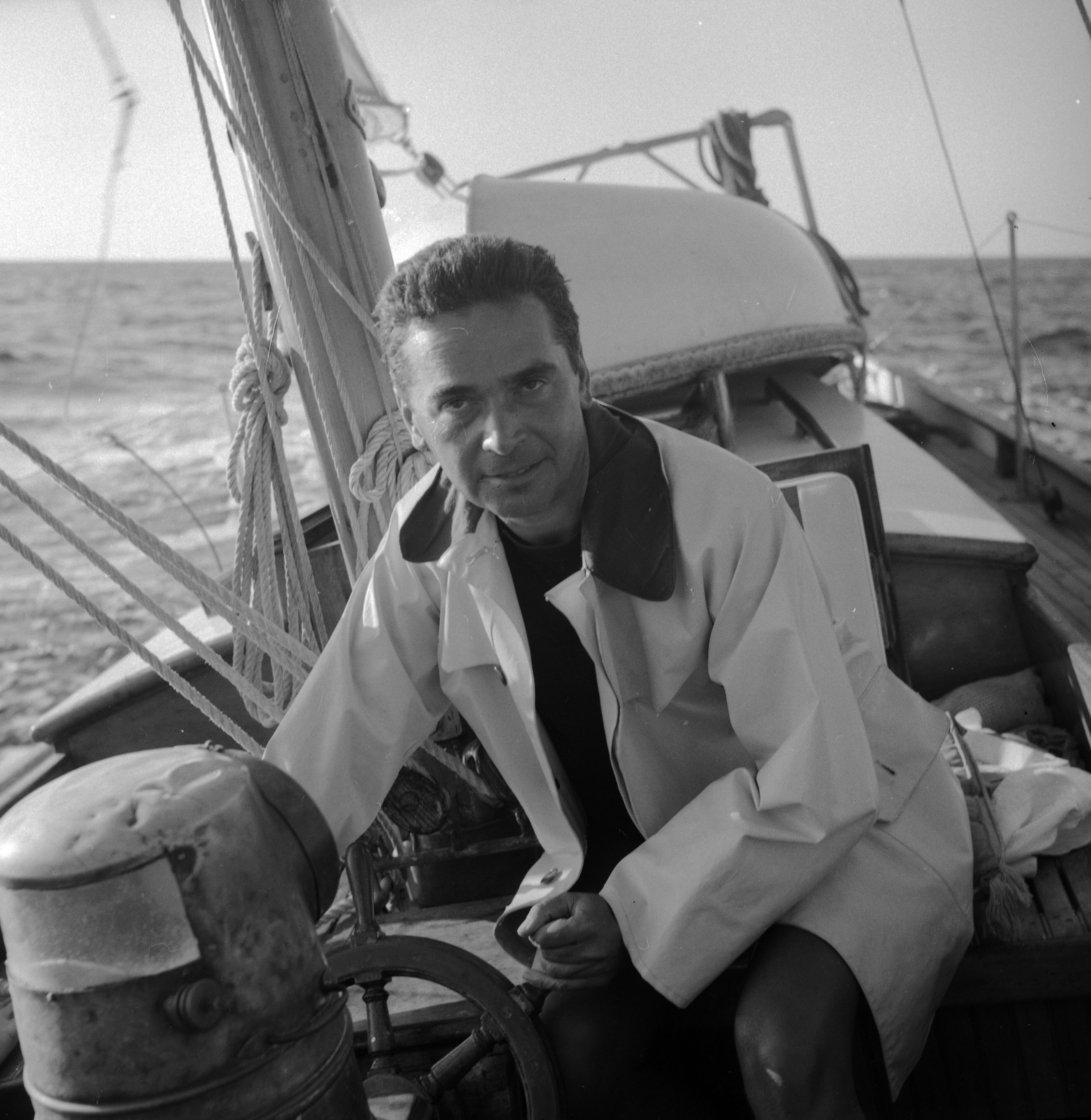 Photograph of the Italian architect and painter Roberto Sambonet on a boat.